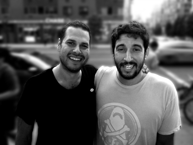 FriendsWithYou Founders Samuel Albert Borkson and Arturo Sandoval III